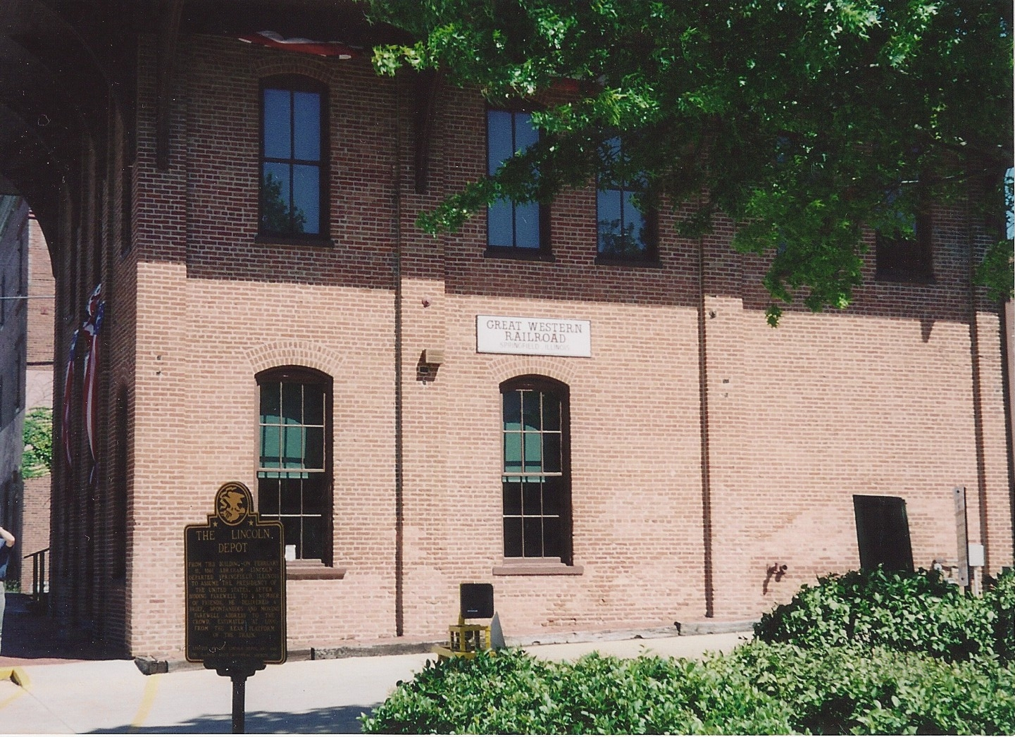 The exterior of the Lincoln Depot in Springfield, Illinois (United States).